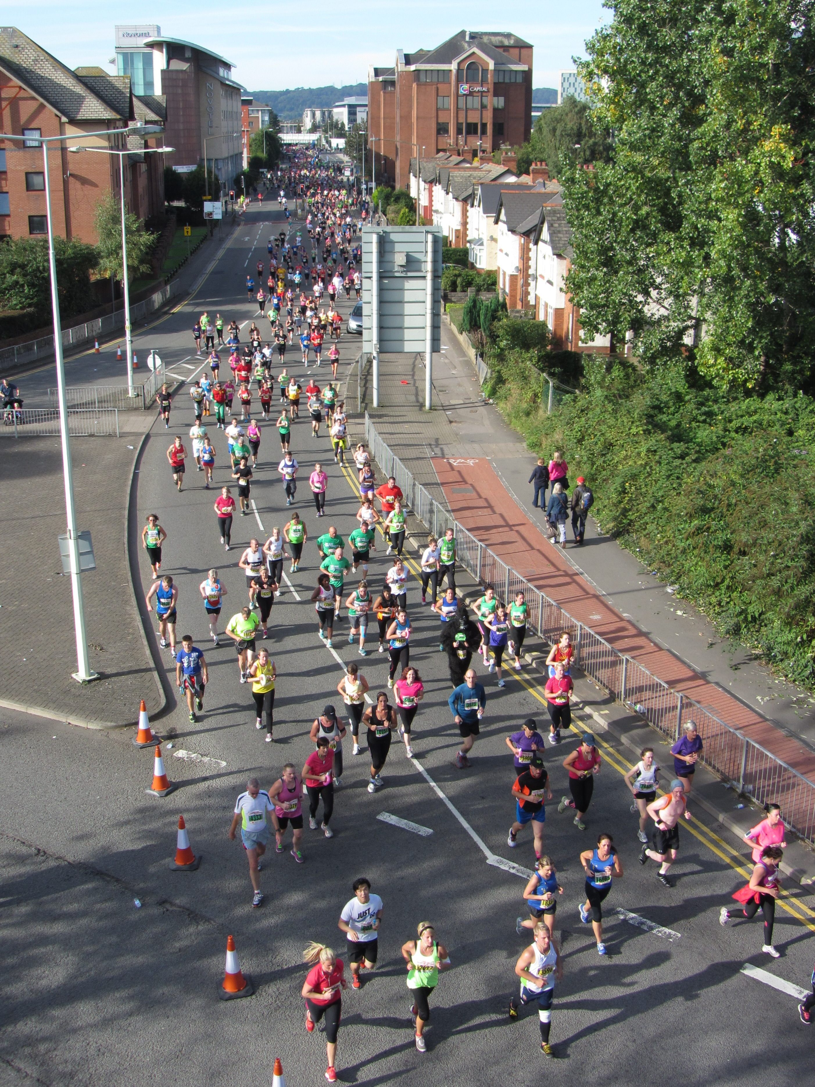 Cardiff Half Marathon 2013. The 2013 Cardiff Half Marathon attracted some 19,000 runners and 40,000 spectators. Here the runners pass along Tyndall Street.